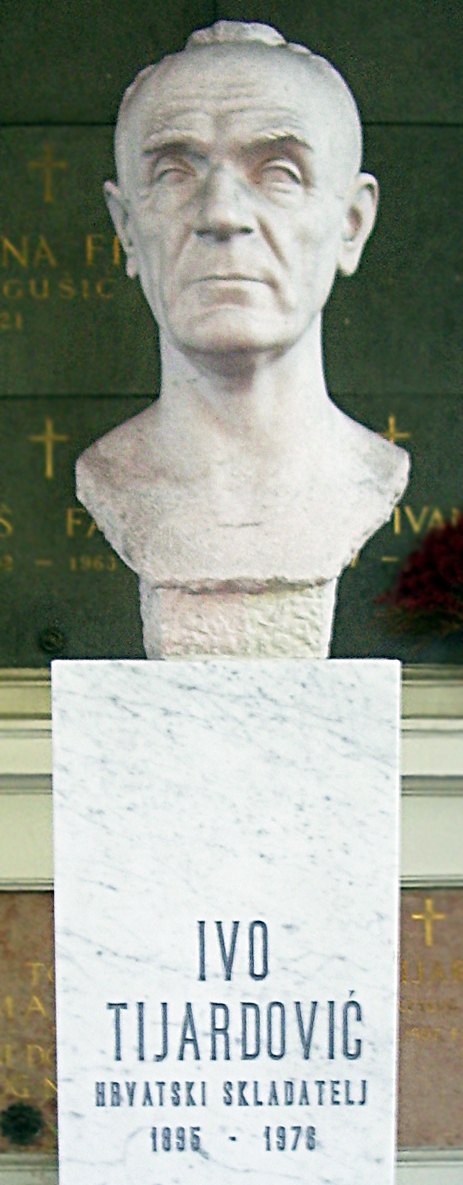 Ivo Tijardović (1895–1976), Croatian composer, bust by sculptor Ive Antunca on Mirogoj Cemetery